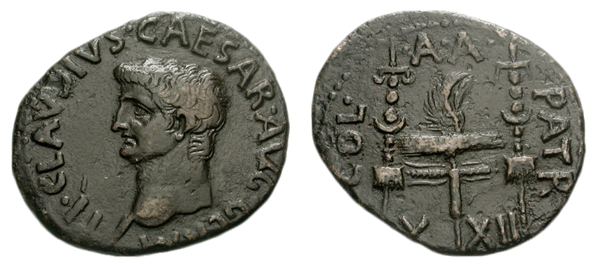 Achaea, Patrae. Claudius. AD 41-54. Æ As (28mm, 7.71 g, 6h). Bare head left X XII, aquila between two standards. RPC I 1256.35-54; BCD Peloponnesus 545 (this coin). Good VF, dark brown patina. Ex BCD Collection (LHS 96, 8-9 May 2006), lot 545. The numbers X and XII refer to those two legions whose veterans were settled at Patrae